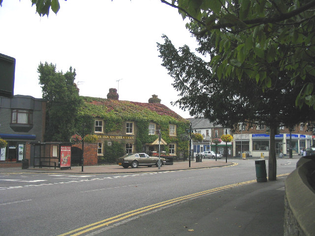 Stanford-le-Hope, Essex. The old ivy clad pub in the centre is called "The Inn on the Green"